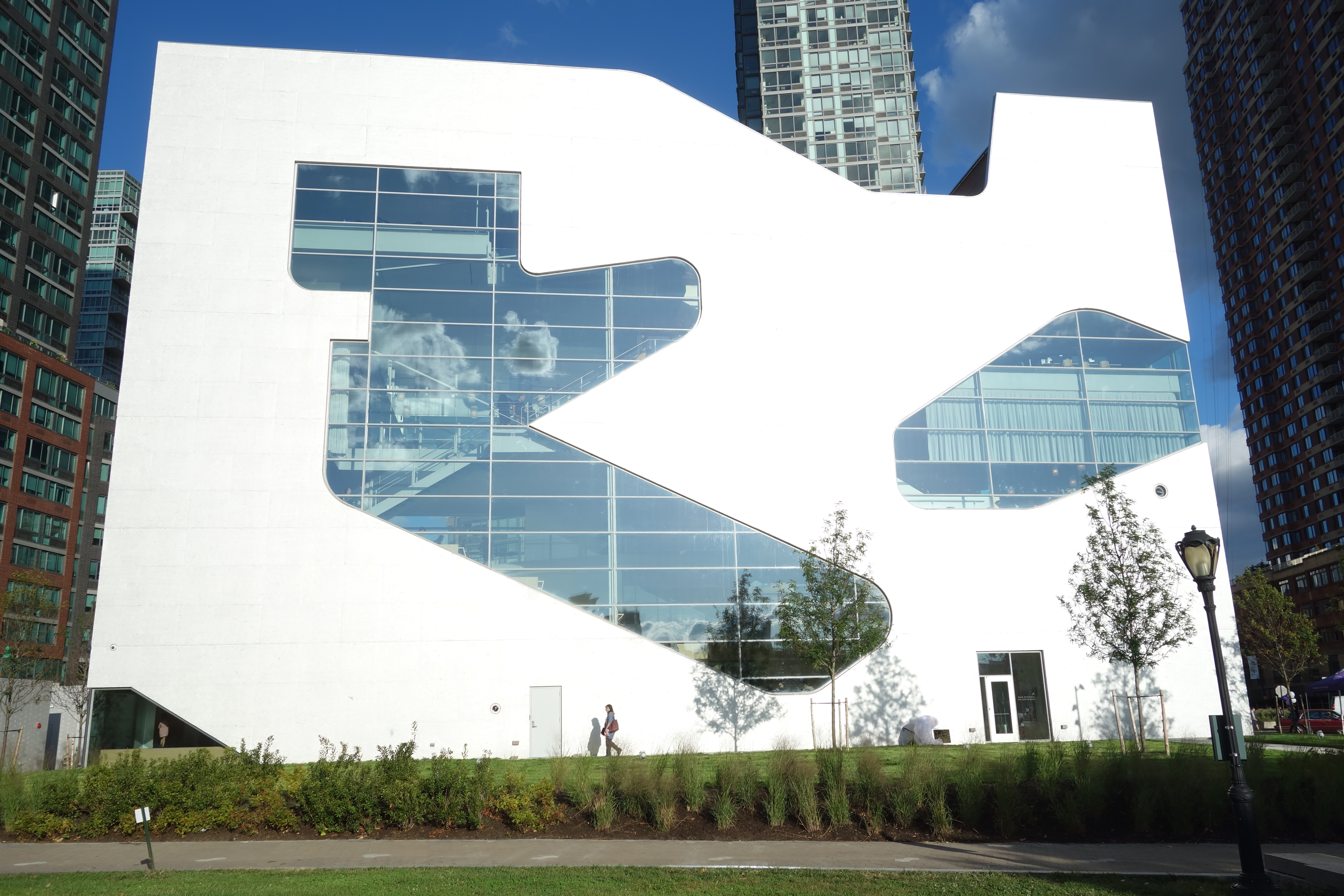 Looking east from the peninsula of Gantry Plaza State Park at the newly-opened Hunters Point Community Library, on the East River at Center Boulevard and 48th Avenue in Hunters Point, Long Island City, Queens. The library has a very modular-looking design, similar to modern museums and Apple stores, and looks like it could be replicated in multiple sites throughout the city. Hint Hint.